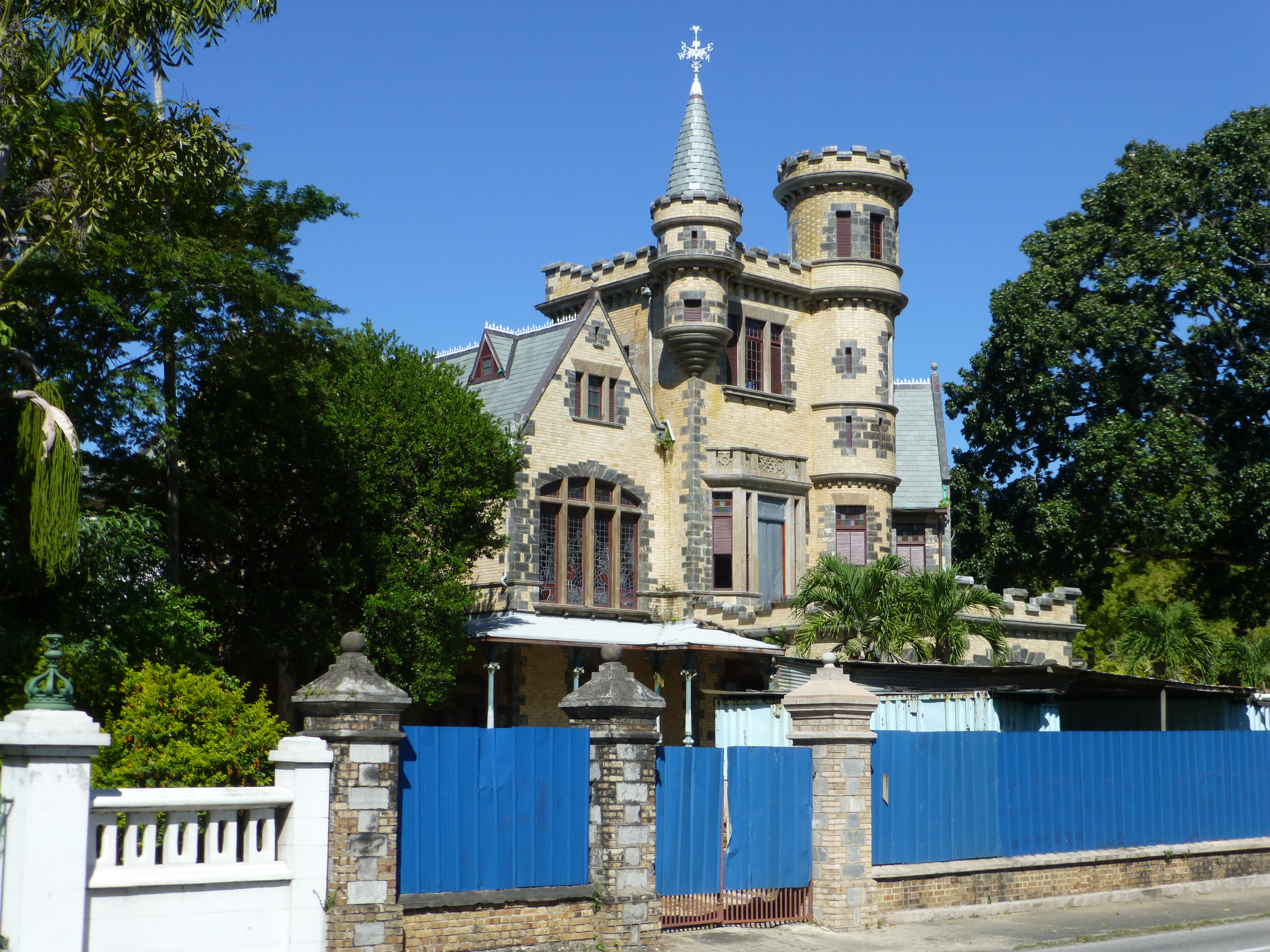 Stollmeyer's Castle, Magnificent Seven, St. Clair, Port of Spain, Trinidad.